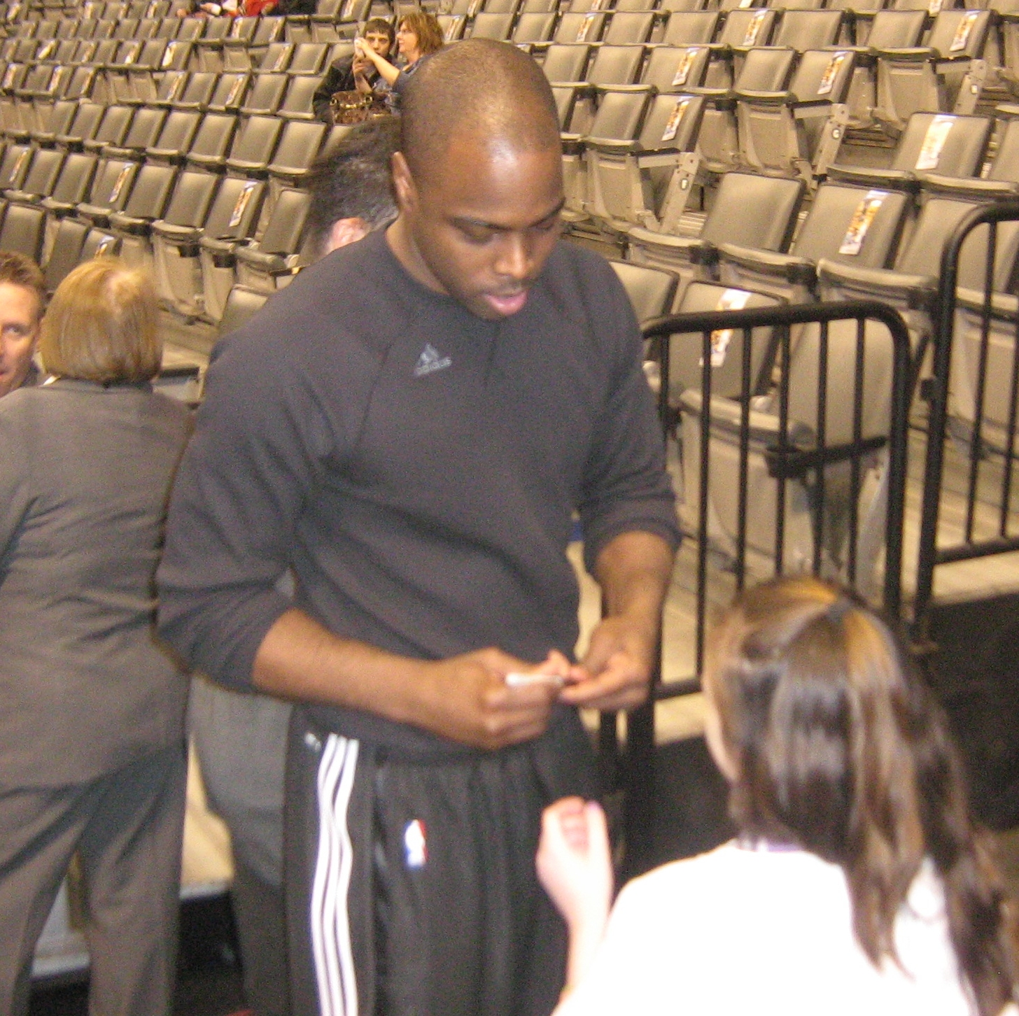 Alvin Williams, Toronto Raptors asistant coach from College - Villanova, Toronto, 2011